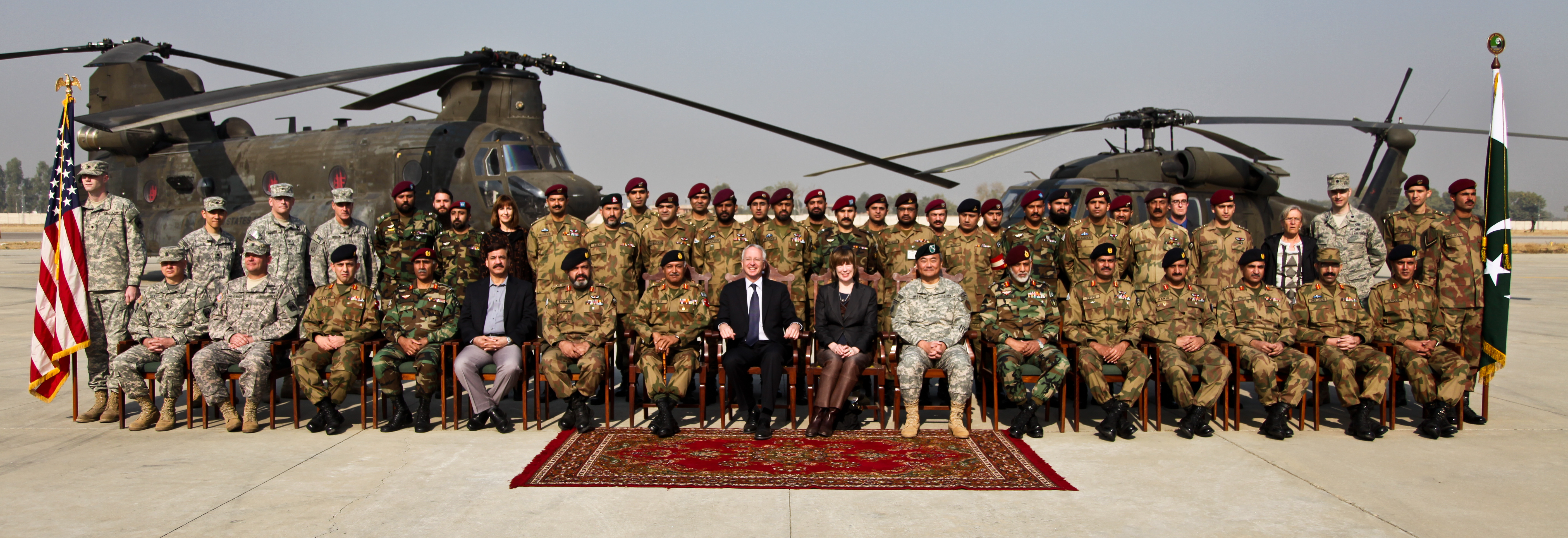 Pakistan Army Lt. Gen. Asif Yasin Malik, The Honorable Cameron P. Munter, and U.S. Army Brig. Gen. Michael Nagata pose for a group photo with other distinguished visitors after the closing ceremony in Khyber - Pakhtunkhwa, Pakistan, Dec. 02, 2010. The closing ceremony signals the end of humanitarian operations out of Ghazi Aviation Base. (U.S. Army photo by Pfc. Joshua Kruger/Released)